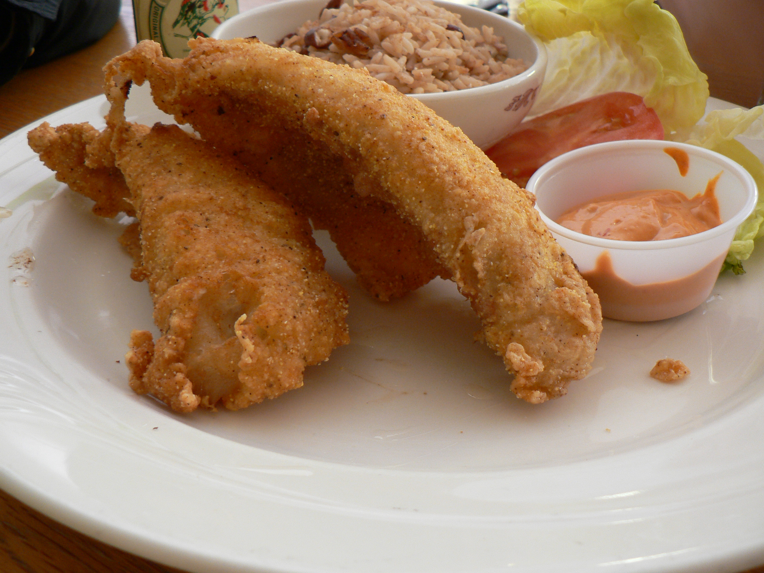 fried perch